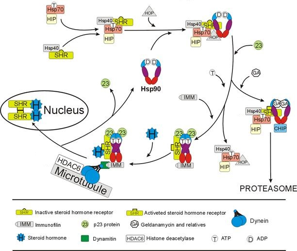 HSP90-dependent cycle of steroid hormone receptor (SHR) activation. Draft Figure for "Structure and function of molecular chaperone HSP90". Sowriemiennyj Naucznyj Wiestnik Ser. Biologija Chimija 15 (23), 46-65